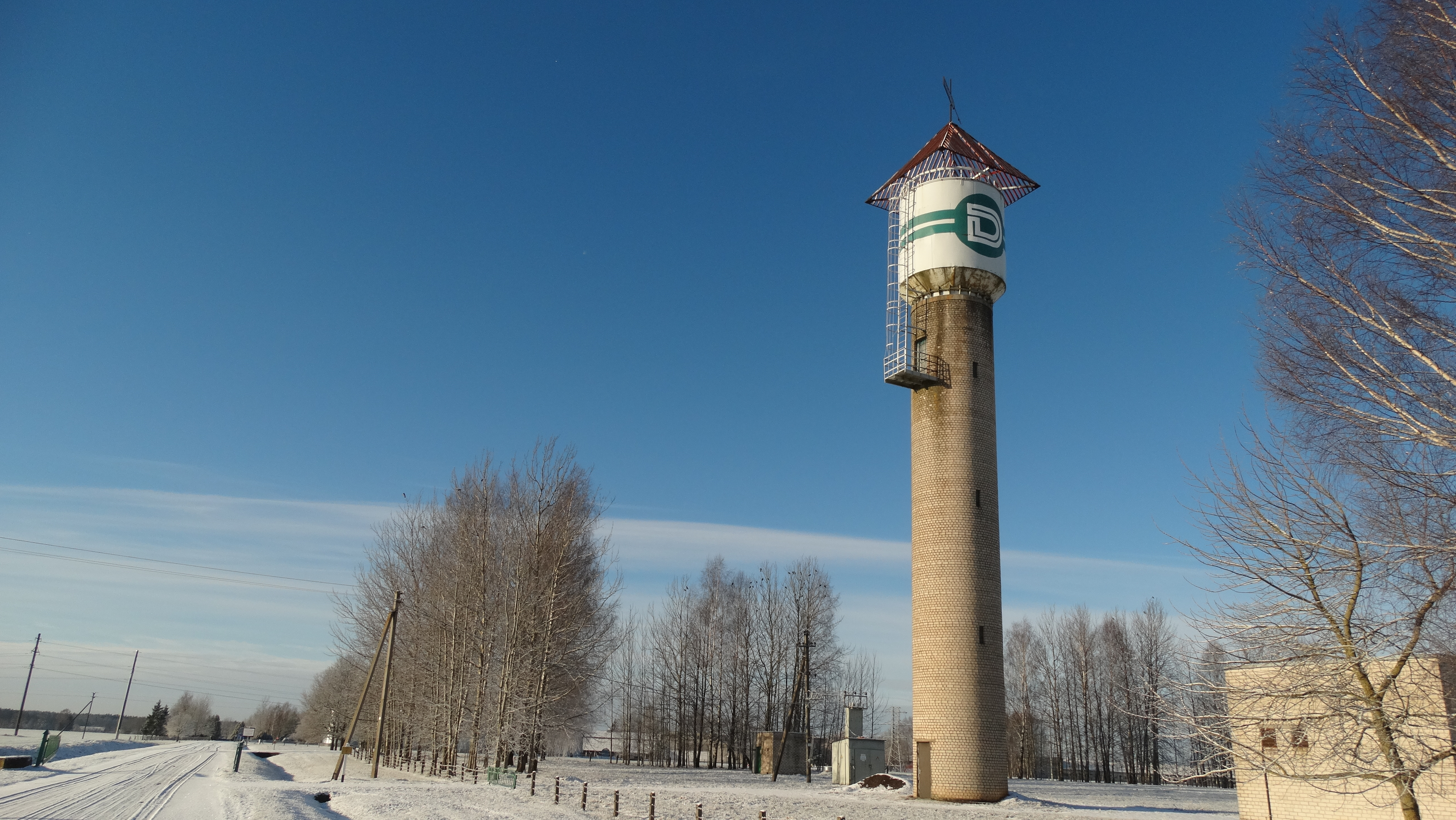 Dainiai, Jurbarkas district, Lithuania